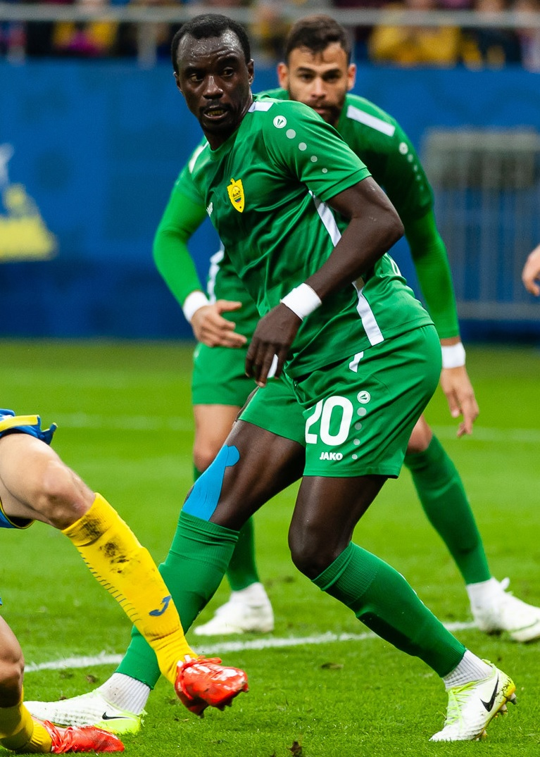 Mohammed Rabiu with FC Anzhi Makhachkala in a game against FC Rostov.